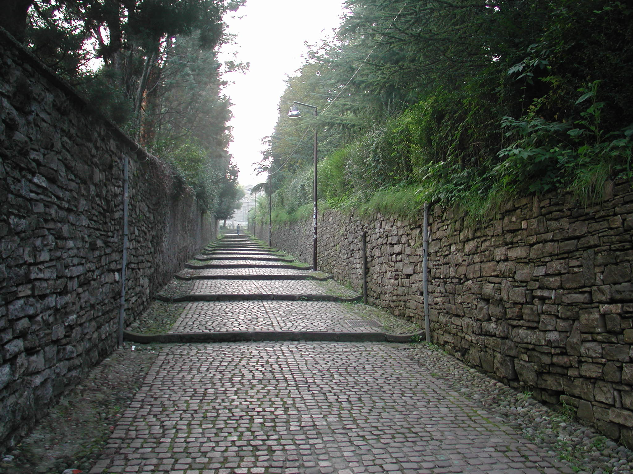 Bergamo, Lombardia, Italy Salita verso Bergamo alta - road to the top of the town (Bergamo alta) Foto fatta da me october 2005